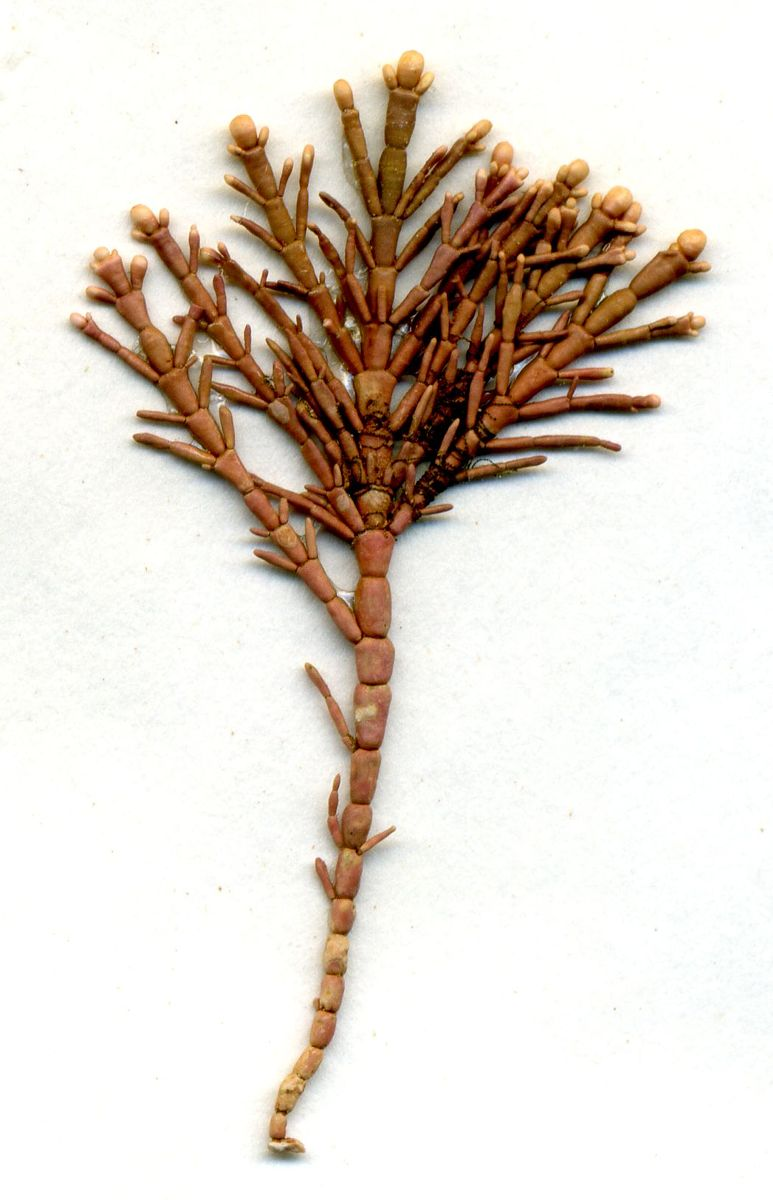 Corallina officinalis L., herbarium sheet. Collected 1985-09-10, Heligoland (Germany)